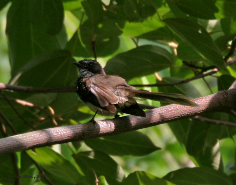 White-throated Fantail Rhipidura albicollis -albogularis race at Ananthagiri Hills, in Rangareddy district of Andhra Pradesh, India.